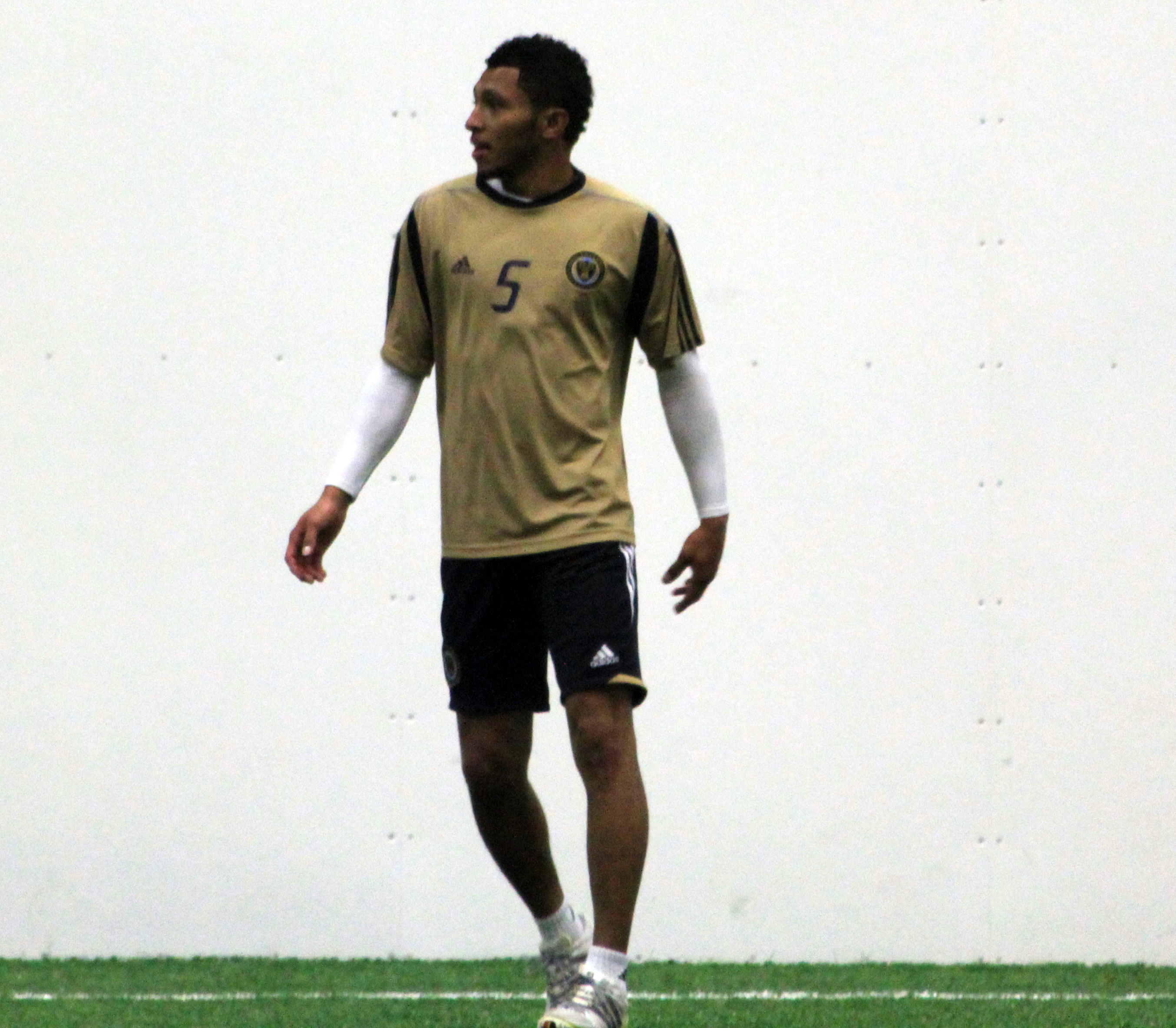 Carlos Valdés participating in preseason training, with the Philadelphia Union, at YSC Sports in Wayne. January 27, 2011.